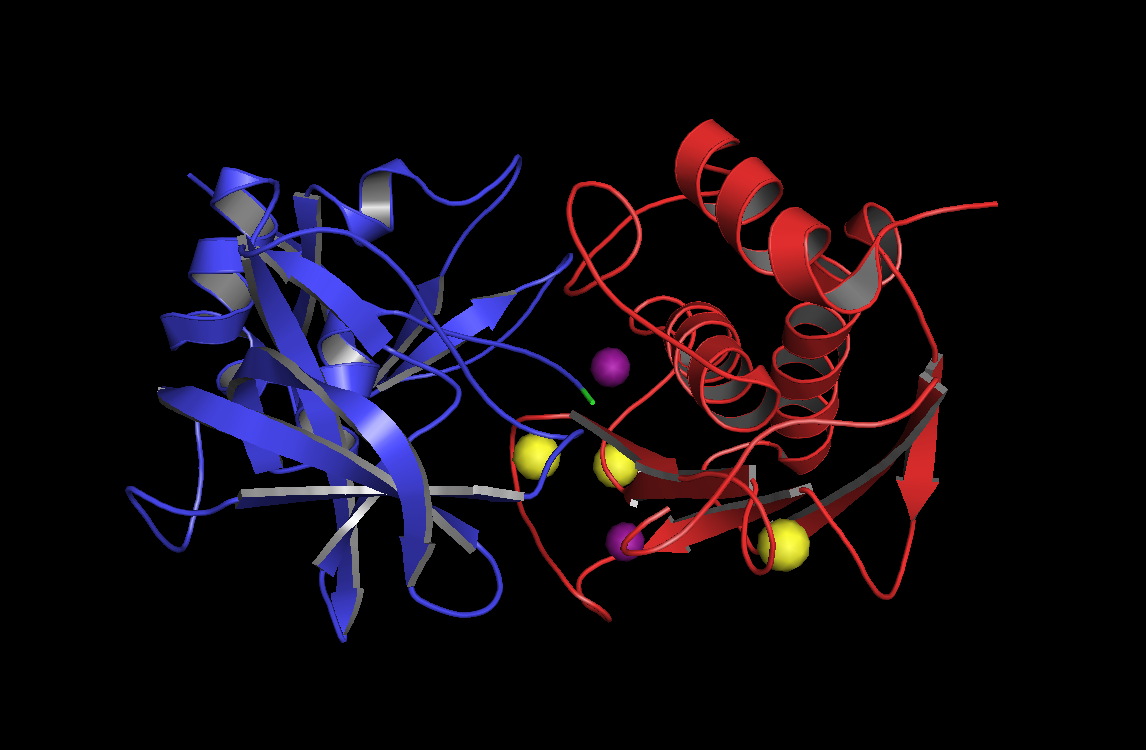 Structure of TIMP-1 in complex with MMP-3. Based on PyMOL rendering of PDB 1UEA.